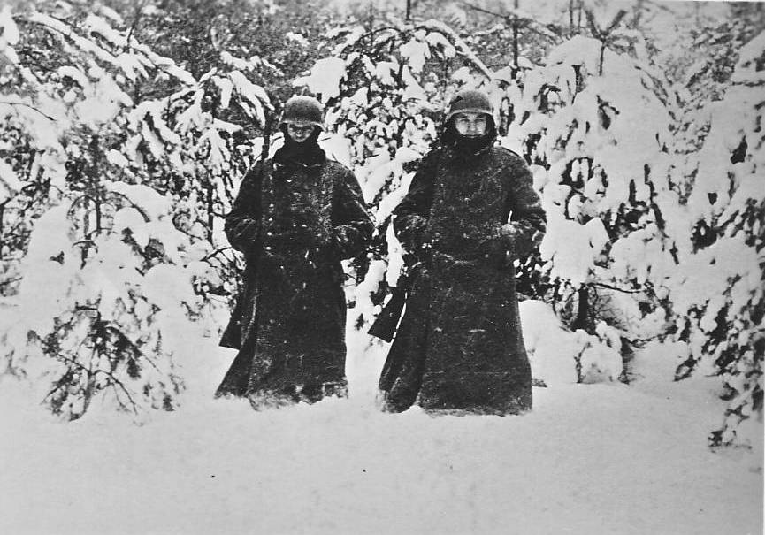 Two soldiers of the Wehrmacht on guard in December 1941 to the west of Moscow